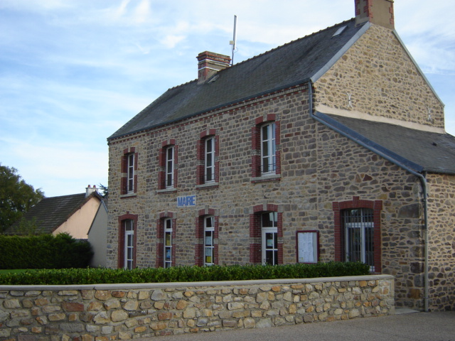 Town hall of Flottemanville-Hague, Manche, France